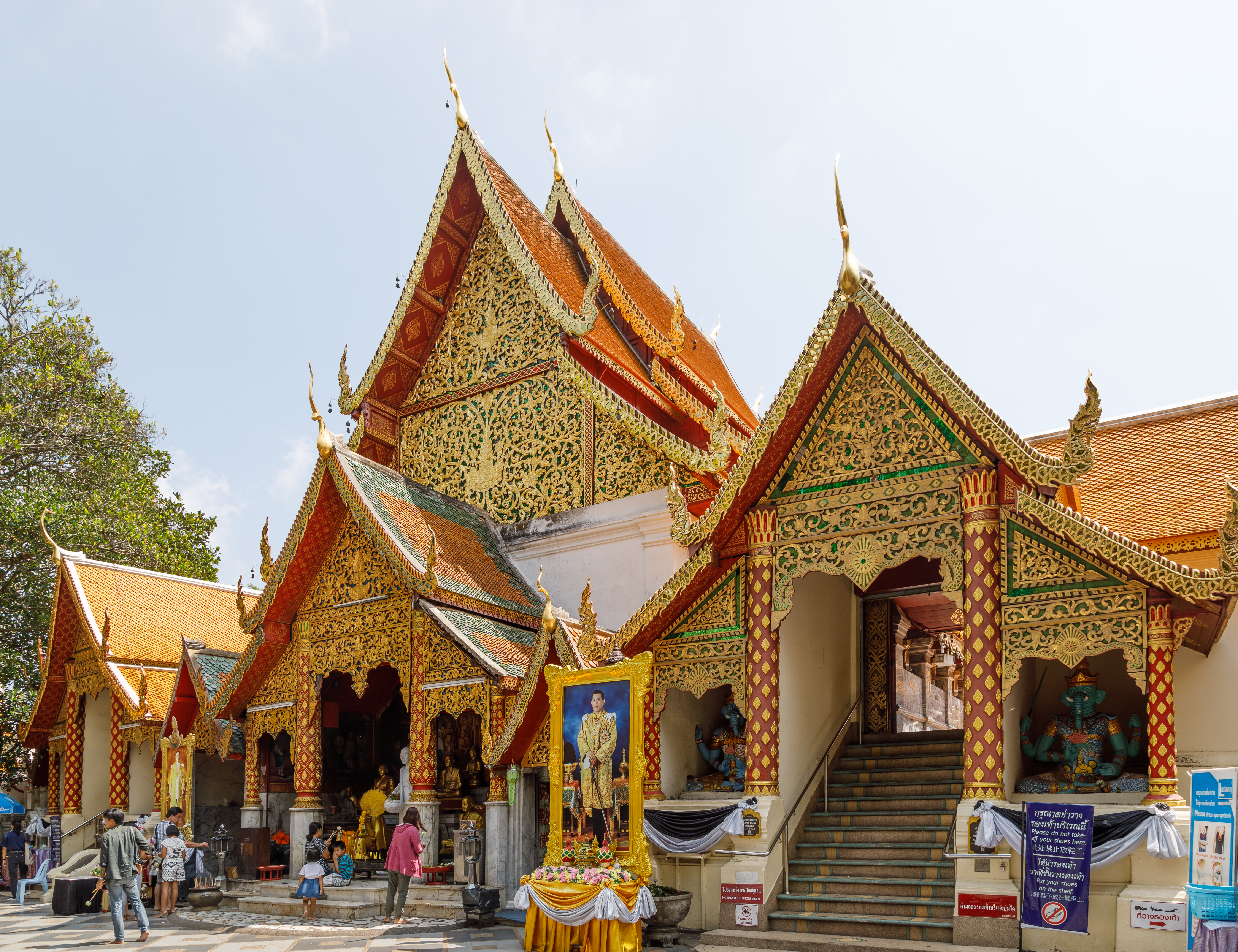 Chiang Mai, Thailand: Wat Phra That Doi Suthep